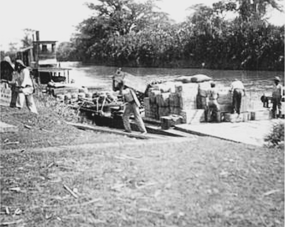 Puerto fluvial de Panzós a principios del siglo xx.